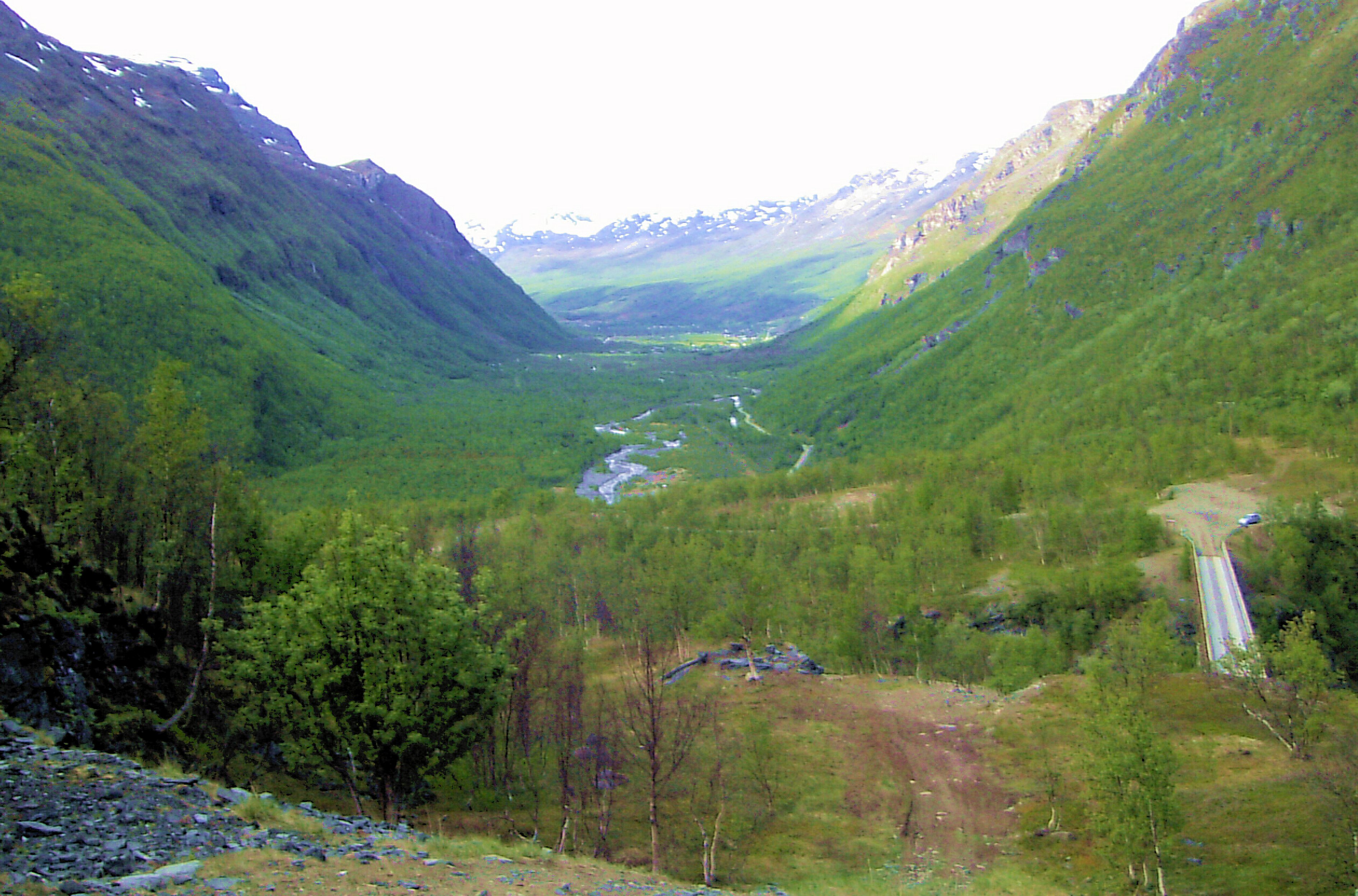 Kåfjord valley, Troms, Norway